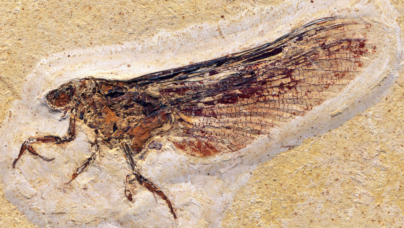 Mickoleitia longimanus Staniczek, Bechly & Godunko, 2011 (Coxoplectoptera: Mickoleitiidae); holotype; imago; wing length 28-29 mm